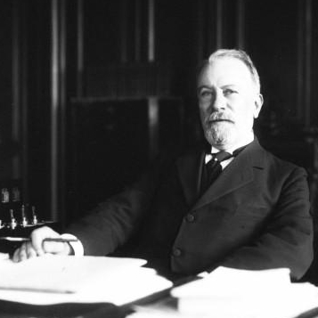 French politician Antony Ratier (1851-1934)